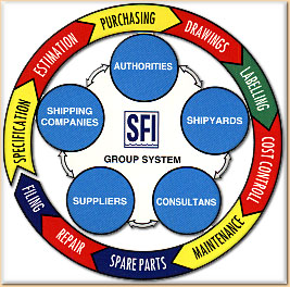 SFI Quality Loop